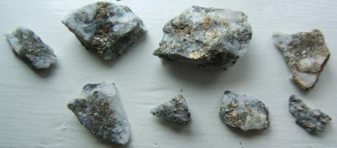 Pyrite in quartz from Beanland Mine in Temagami, Ontario, Canada